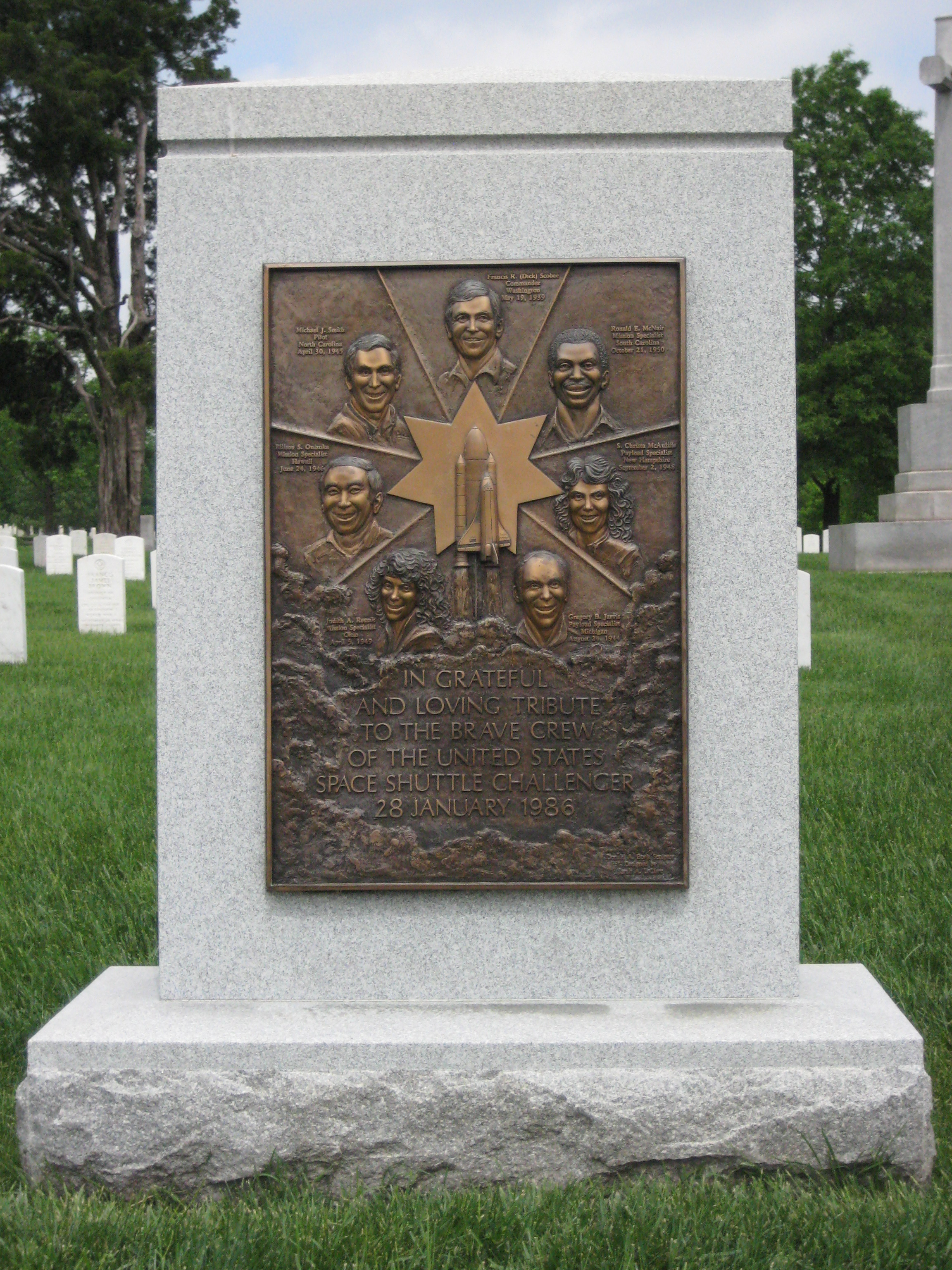 The Space Shuttle Challenger Memorial in the Arlington National Cemetery